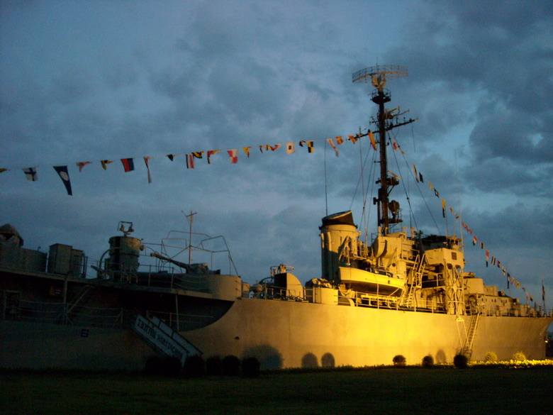 Armed Forces Academies Preparatory School, Thailand in Amphoe Ban Na, Nakhon Nayok Province, Thailand.